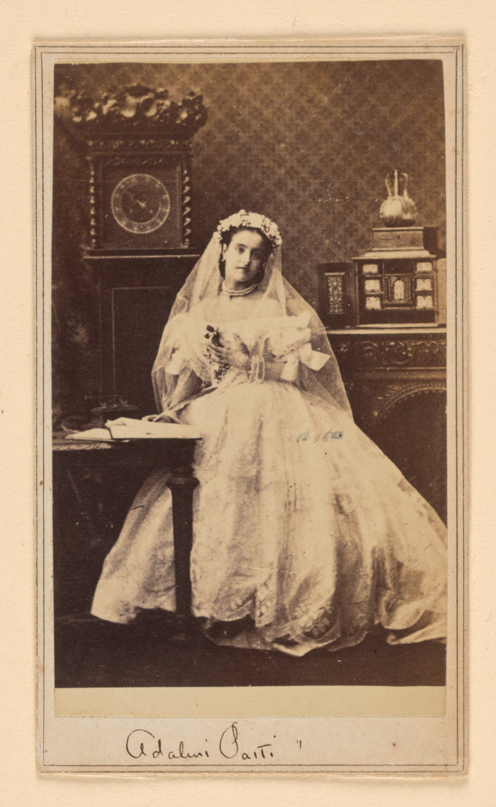 Adelina Patti, 19 Feb 1843 - 27 Sep 1919